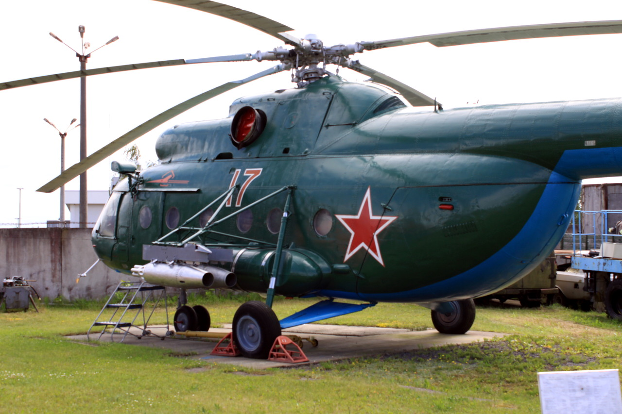 Mi-8, Riga